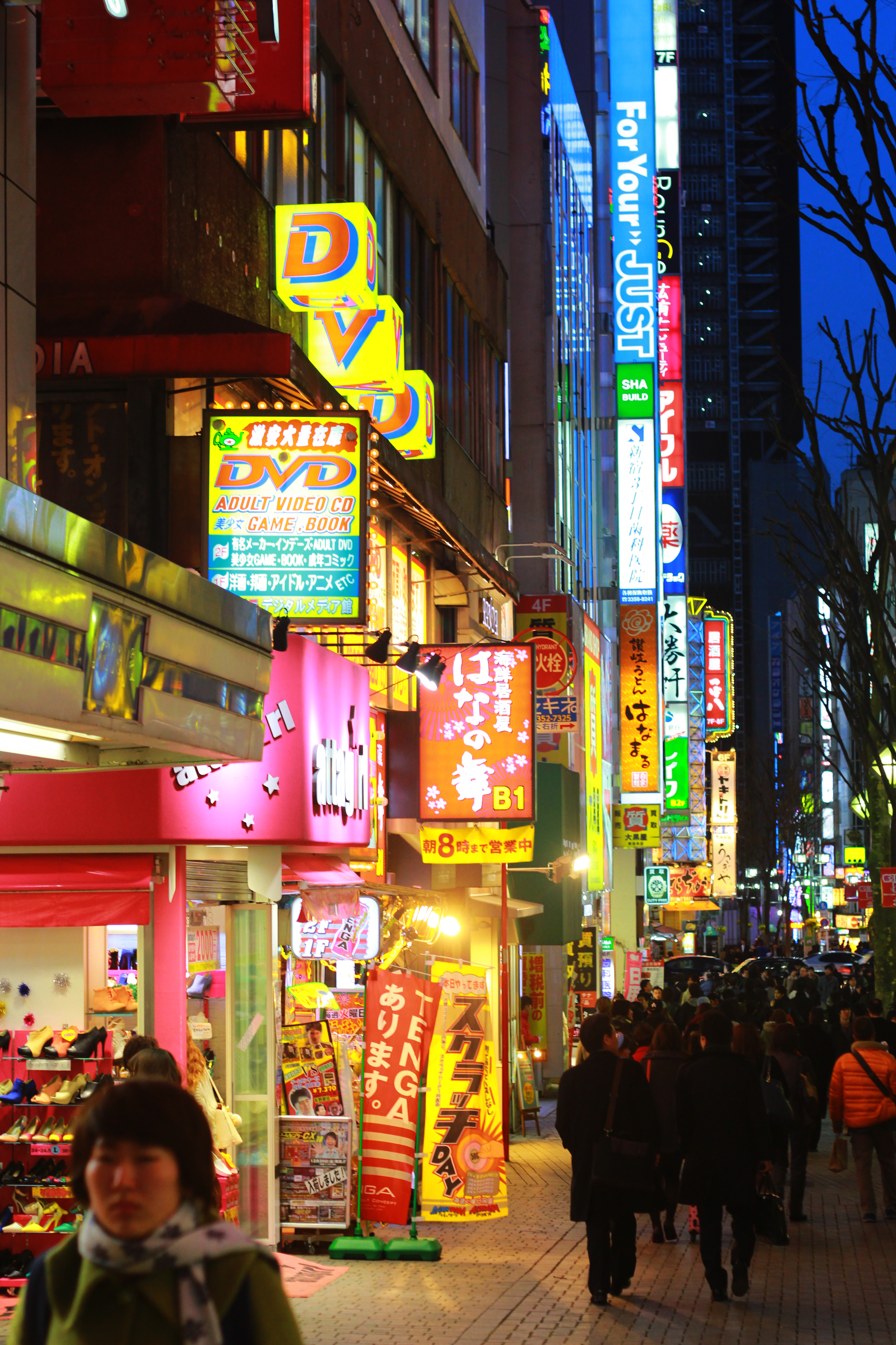 Kabukicho, Shinjuku, Tokyo